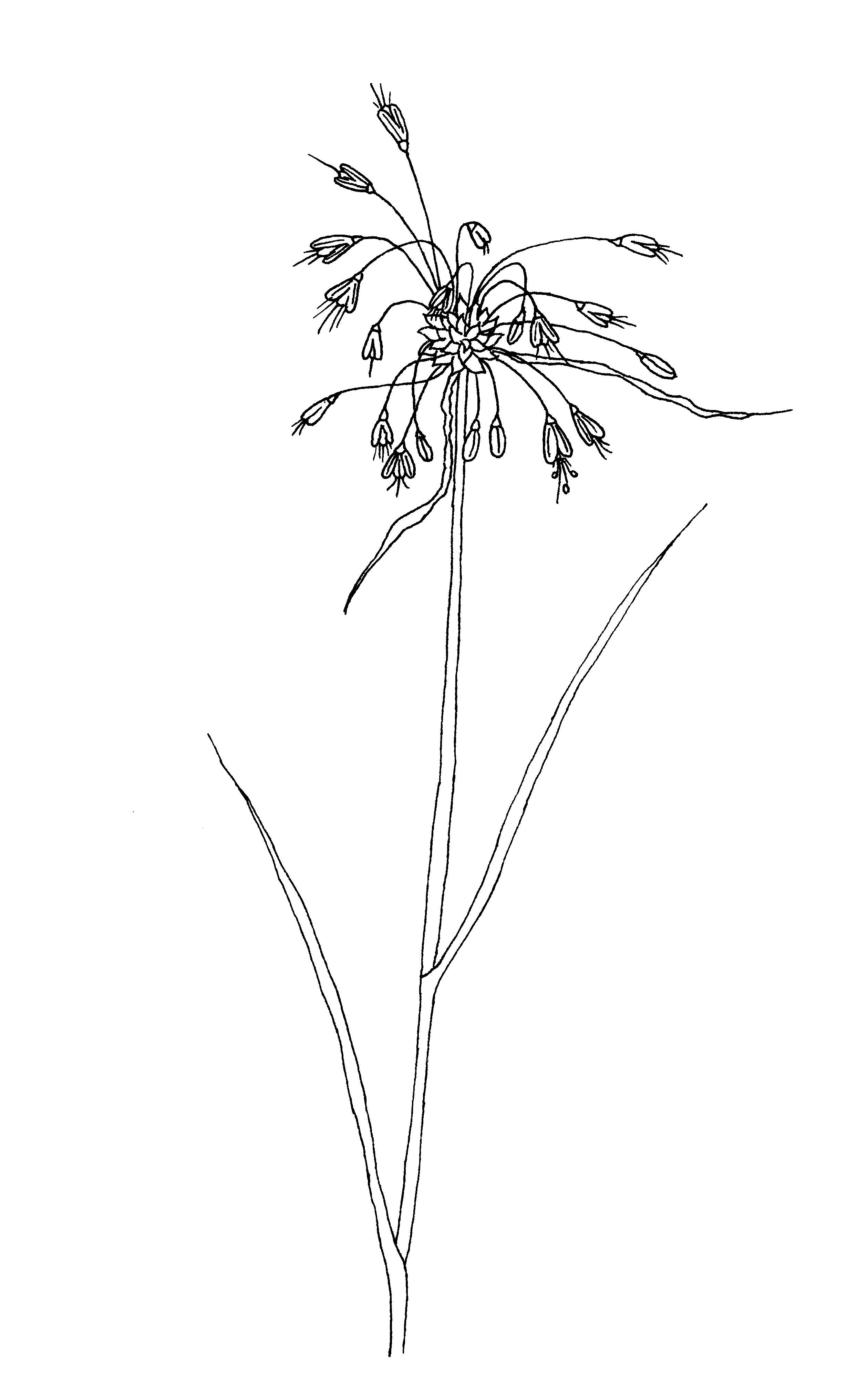 Allium carinatum nl: Berglook August 9, 1979 Weesen, Switserland Pendrawing on paper by Elly Waterman Pentekening op papier door Elly Waterman